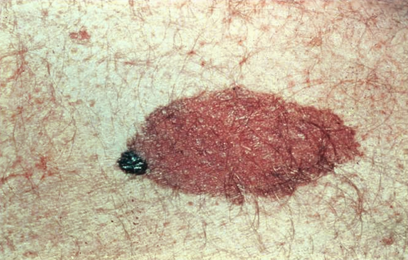 Converted to JPG with Gimp from the hi-res TIFF file. From an unknown location on this patient’s body, this image depicts a pigmented cutaneous lesion that was diagnosed as a congenital nevus. Note the variable coloration, and slightly irregular border of this nevus. Congenital nevi are characterized by the following criteria: - These cutaneous lesions may be small or large - When small, these nevi present an unknown risk of malignant melanoma (MM) - The prophylactic removal of these nevi during a patient’s teen years is probably reasonable